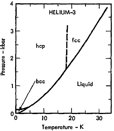 These 1975 phase diagrams are generally incomplete, reaching at most 250 kbar (25 GPa) and thus lacking many high-pressure metallic phases. Taken from "Phase Diagrams of the Elements", David A. Young, UCRL-51902 "Prepared for the U.S. Energy Research & Development Administration under contract No. W-7405-Eng-48". From the document, "DISTRIBUTION OF THIS DOCUMENT IS UNLIMITED"; printed copies were available from the National Technical Information Service.